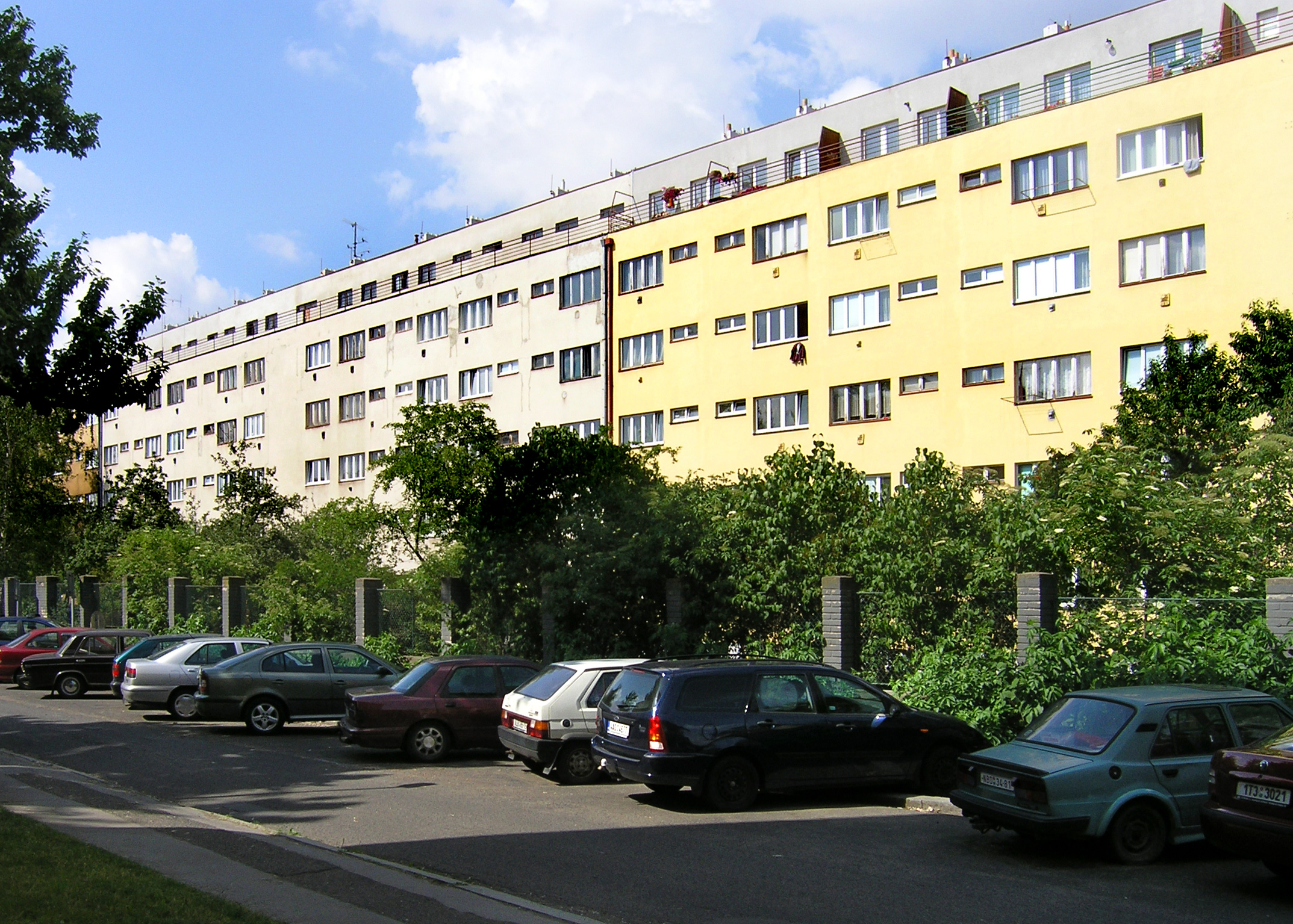 Obětí 6. května street in Zelená liška housing estate in Krč, Prague